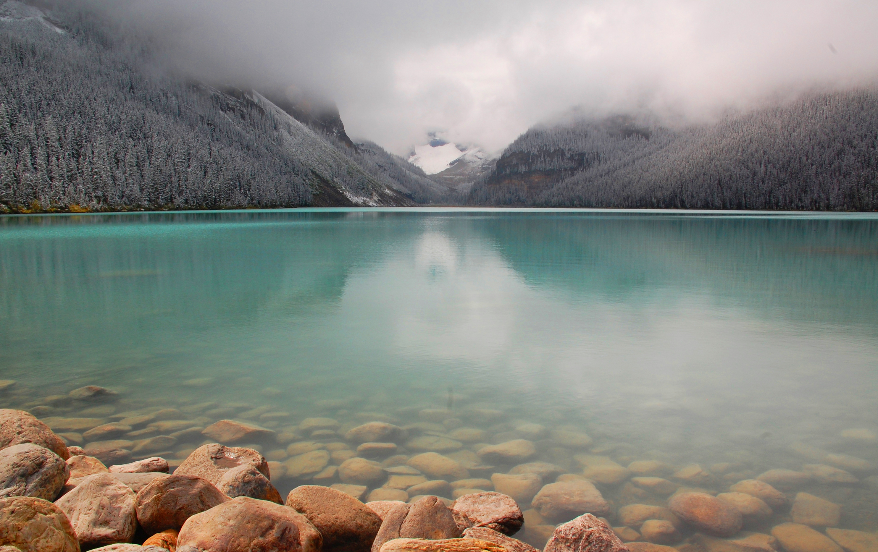 Lake Louise on a late summer afternoon, following a brief snowstorm.